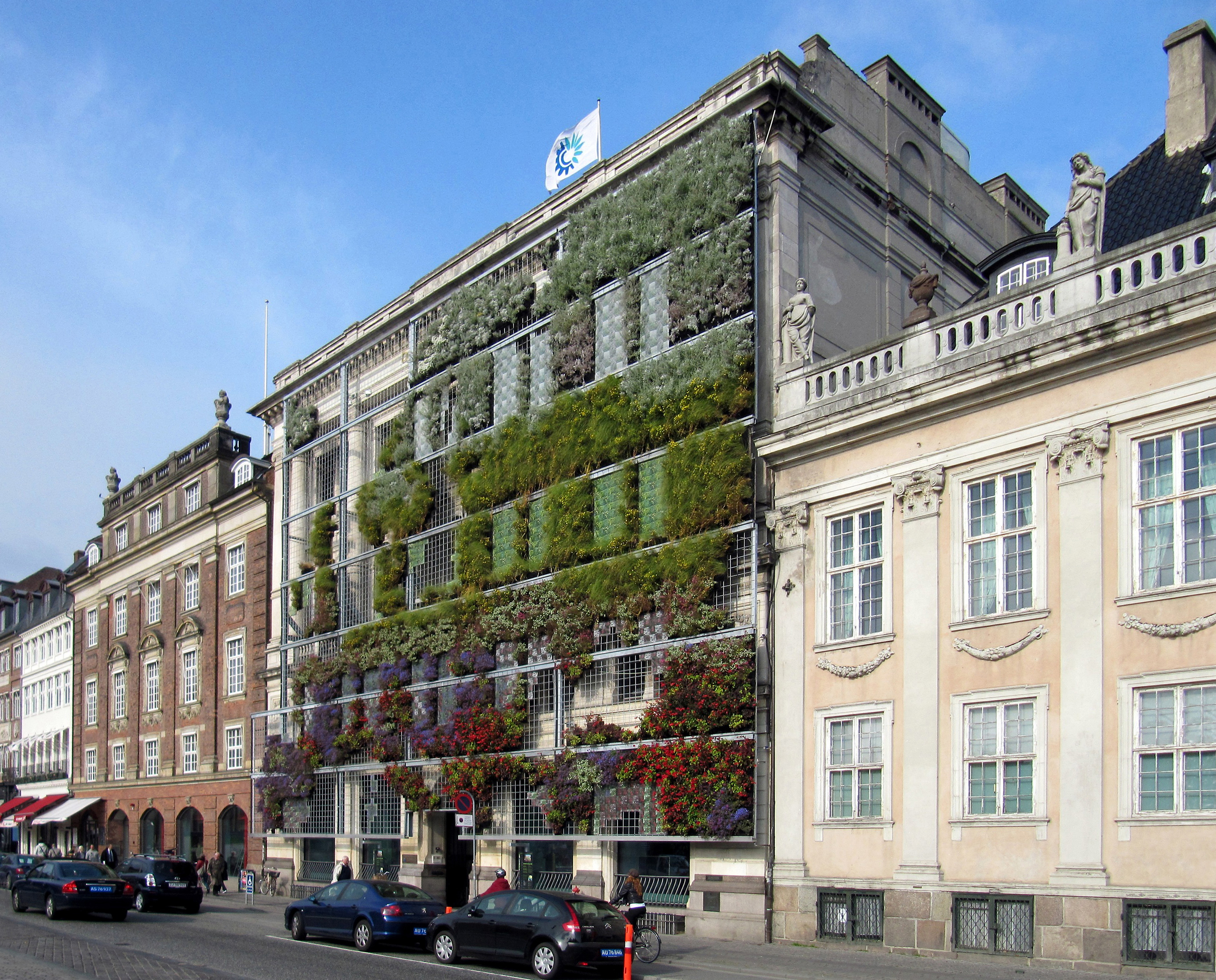 European Environment Agency on Kongens Nytorv in Copenhagen, Denmark.